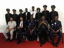 Sortie de la première promotion d'ingénieurs en aéronautique entièrement formés au Sénégal